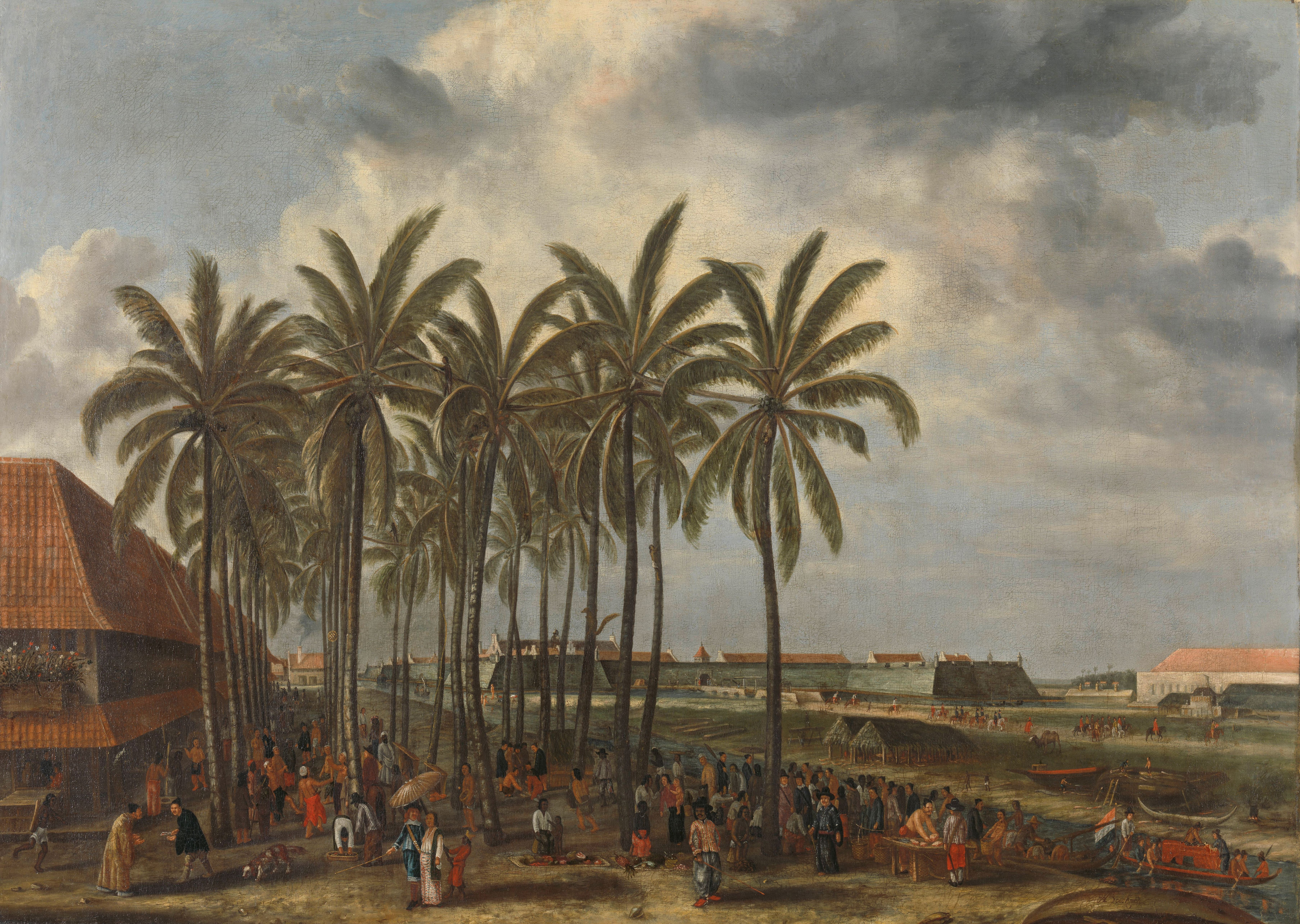 The castle of Batavia, seen from Kali Besar West around 1656. On the foreground a sort of market underneath palm trees.